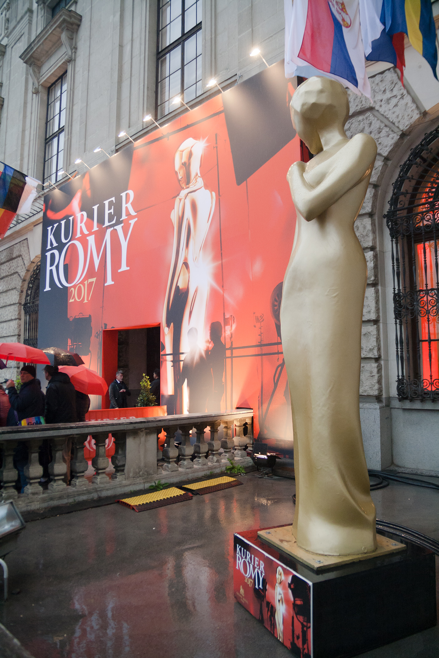 Red carpet of the Romy TV awards 2017 at Hofburg Palace in Vienna, Austria.